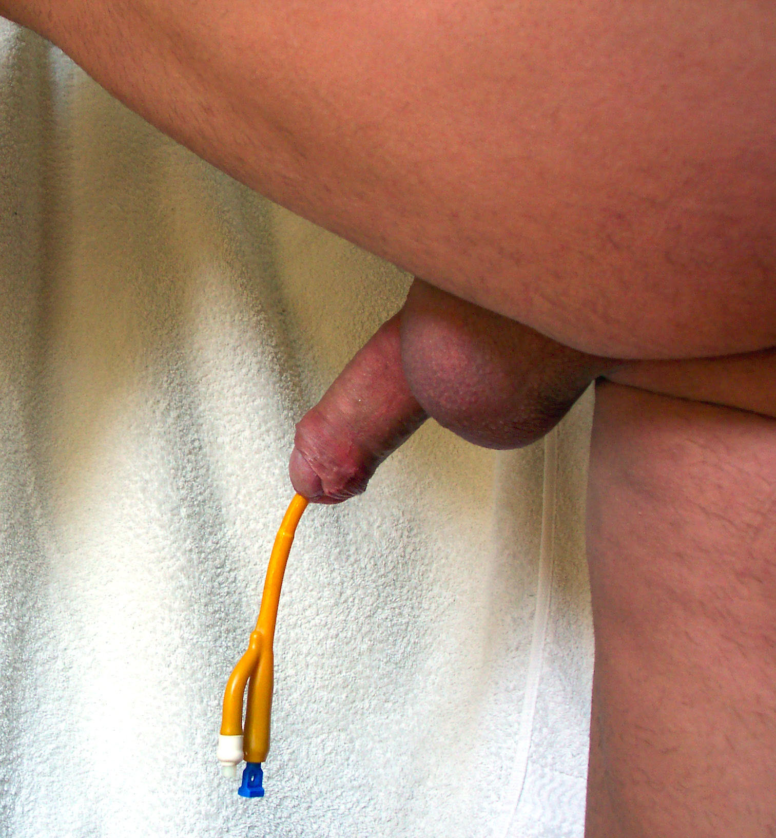 41cm long Foley catheter, size F/Ch. 24, placed into a male urethra; balloon blocked; outlet plug placed